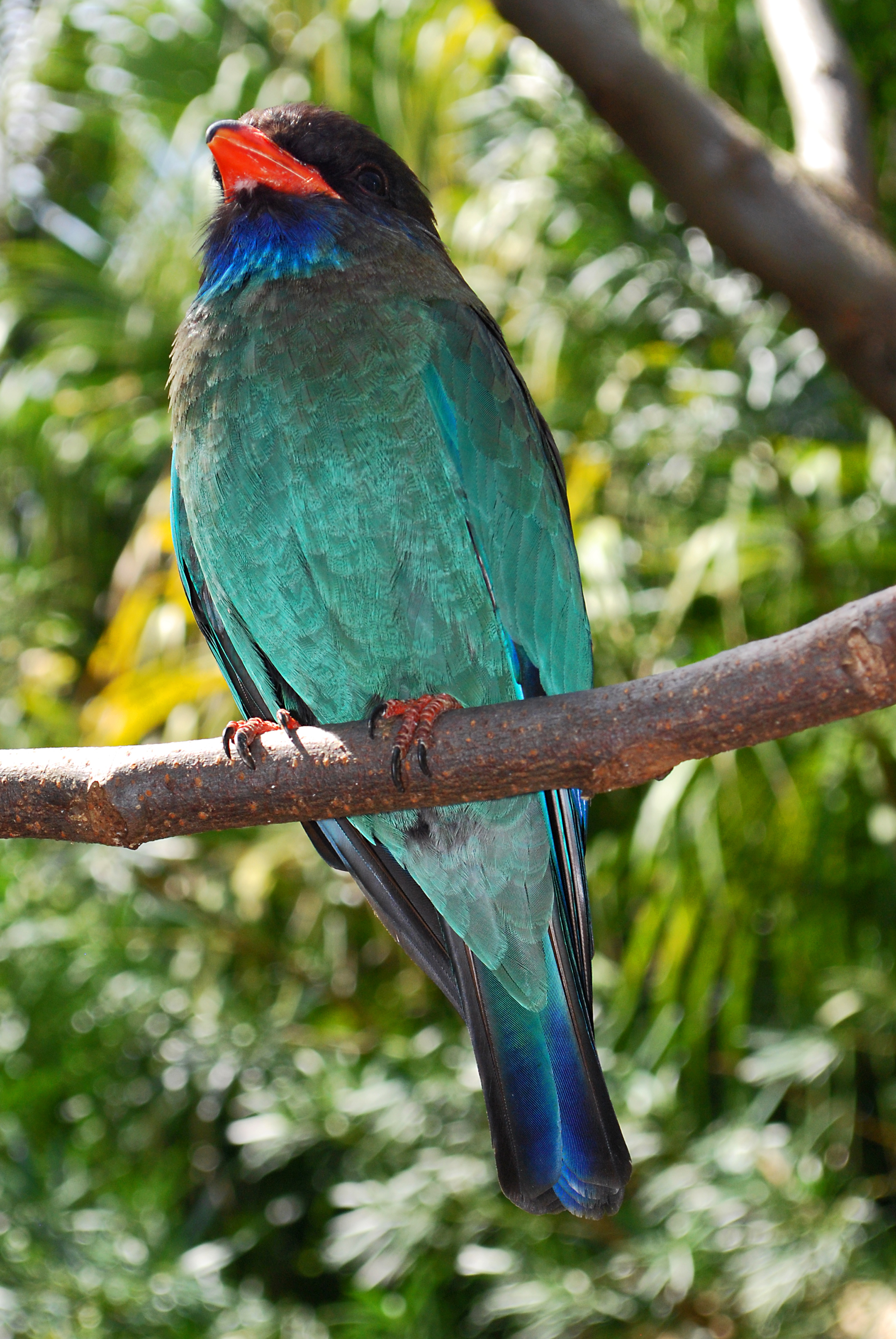 An Oriental Dollarbird (also known as the Dollar Roller) at Miami Metrozoo, USA. ISIS list the zoo as having the nominate.